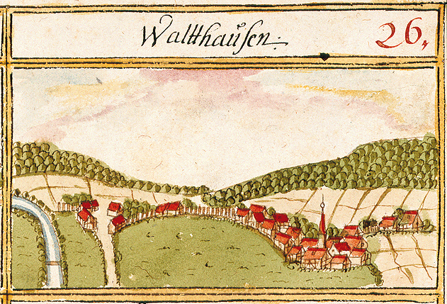 View of Waldhausen, Lorch, from the forest register books created by Andreas Kieser